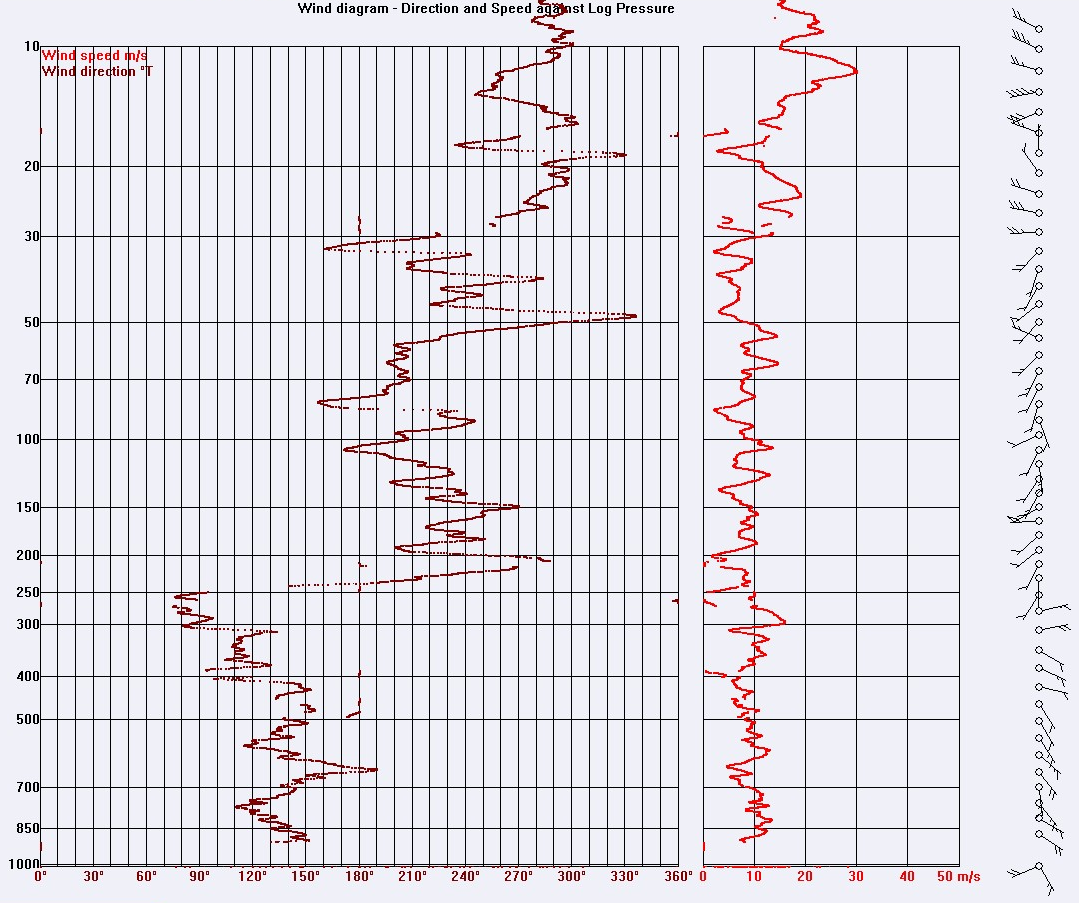 Vertical wind profile created by decoding software licensed to me using raw data from a radiosonde launched by De Bilt (WMO no. 06260), Netherlands, on Dec. 4, 2014 , 11:30 UTC. Max. pressure altitude reached was 6.9 hPa (~33400 meter). Raw data acquired with my own radio equipment.